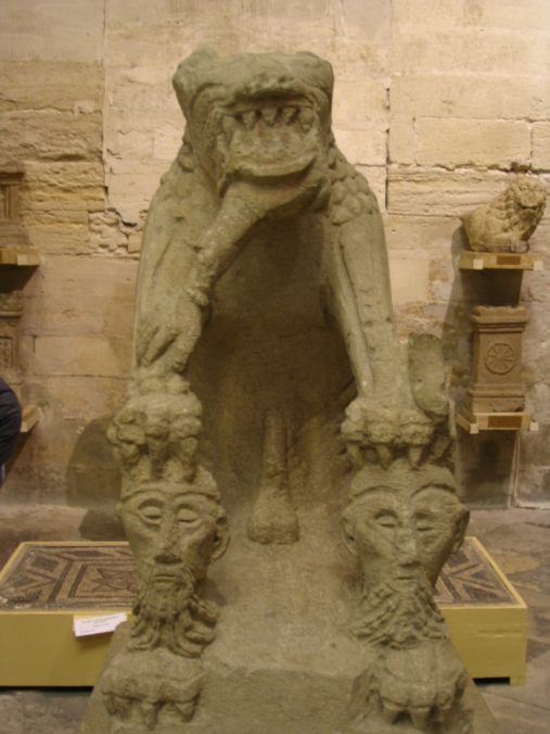 Gaulish statue of anthropophagic beast (known as the Tarasque) from Noves (south of France near Avignon).